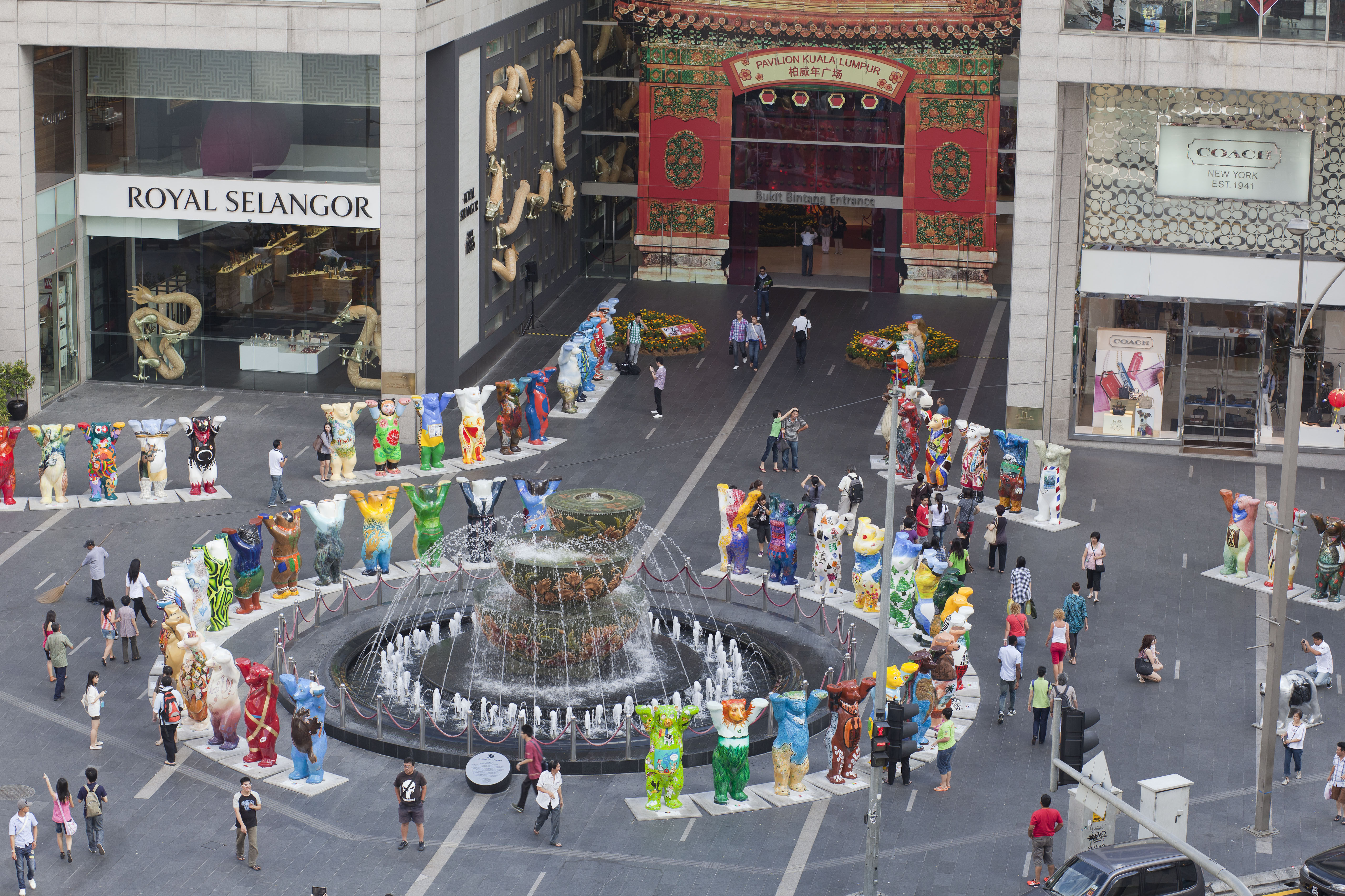 United Buddy Bears in Malaysia, Kuala Lumpur